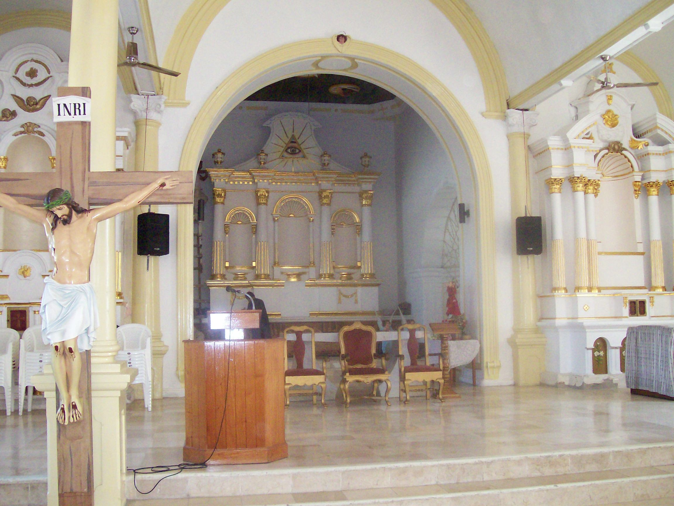 Interior of Church in Boaco, Nicaragua